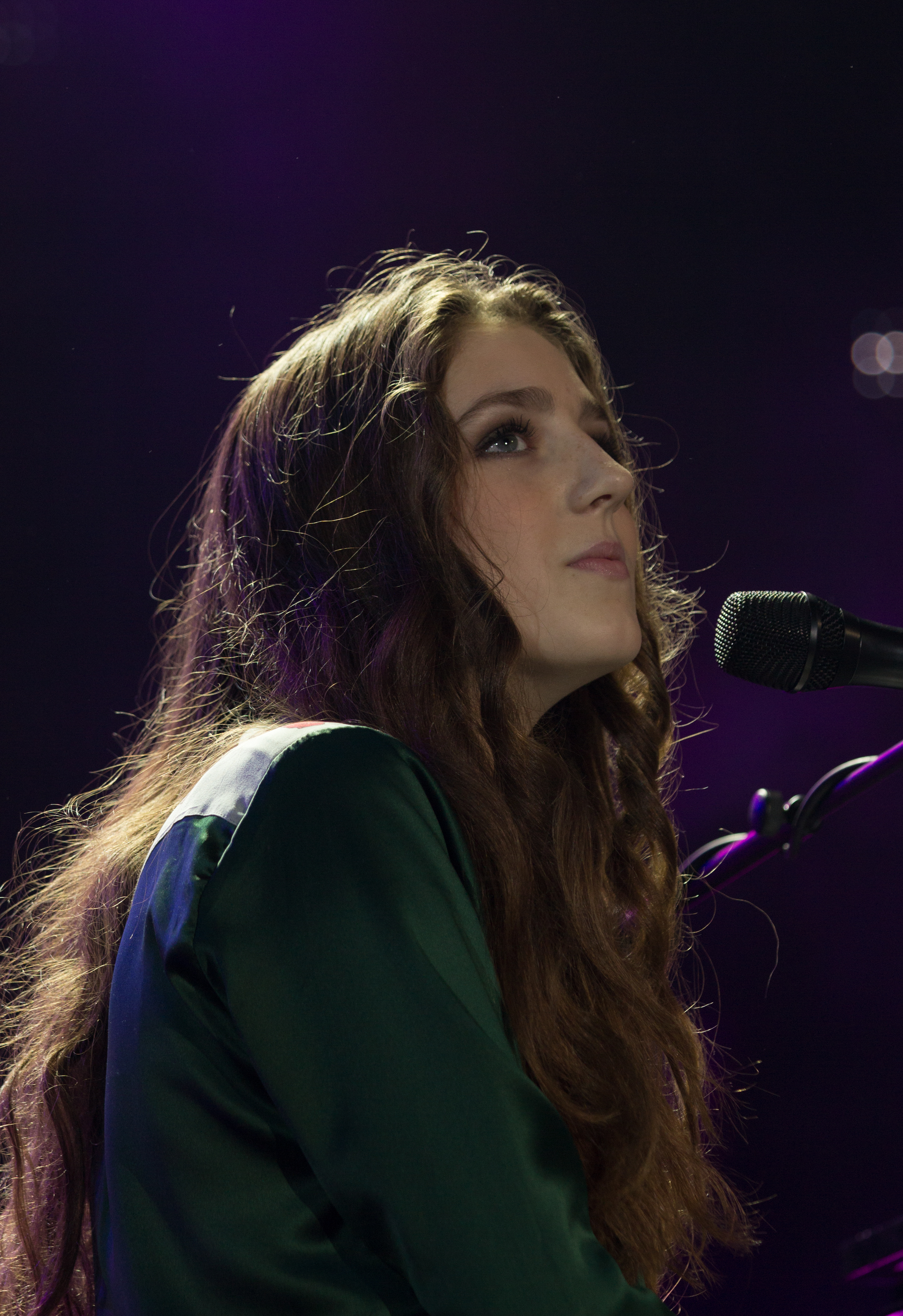 Birdy at the SWR3 New Pop Festival in Baden-Baden 2013 Festivalsommer This photo was created with the support of donations to Wikimedia Deutschland in the context of the CPB project "Festival Summer".